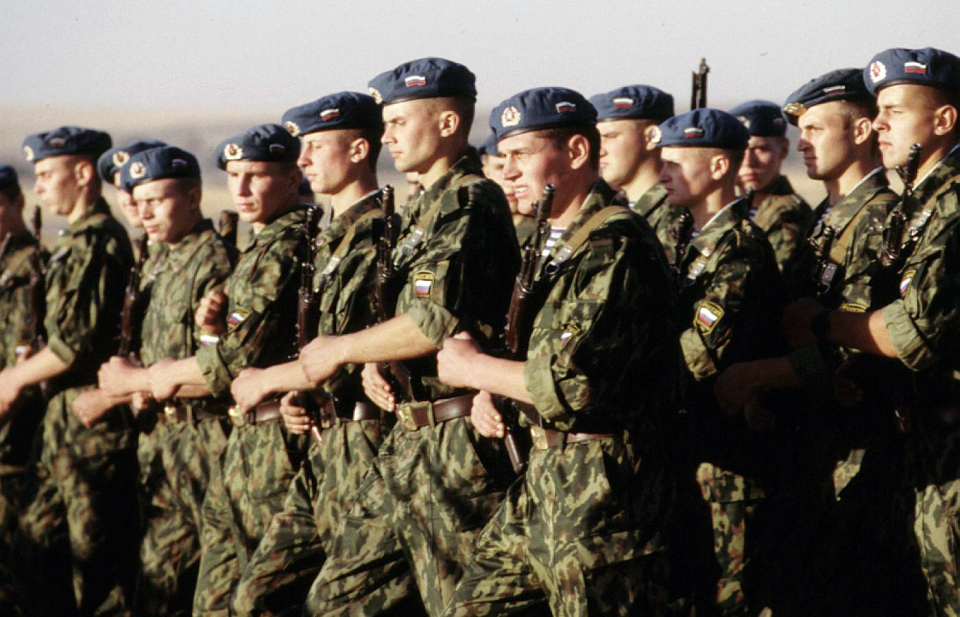 Russian paratroopers march in Kazakhstan.